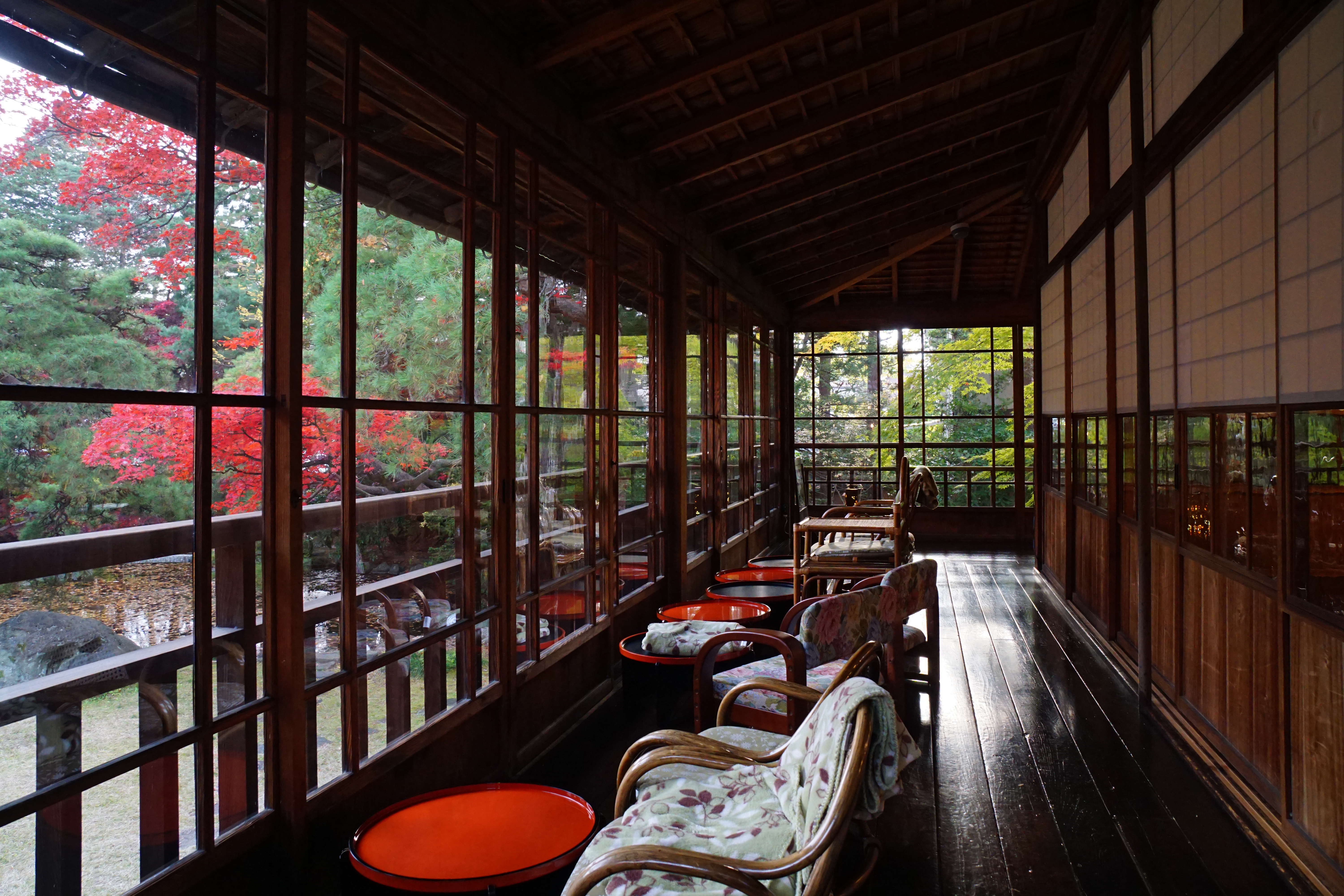 Nanshoso in Morioka, Iwate prefecture, Japan